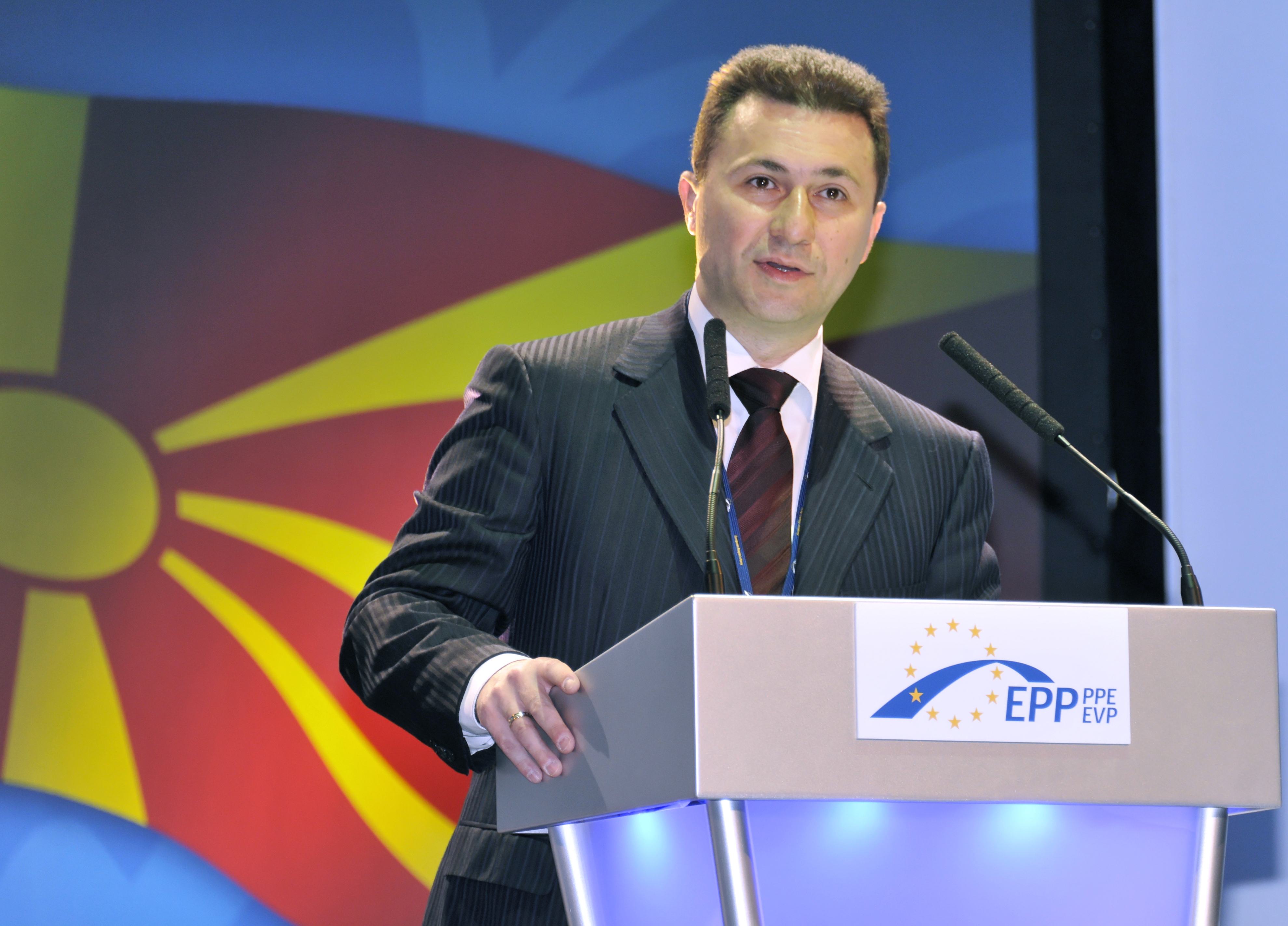 EPP Congress Warsaw